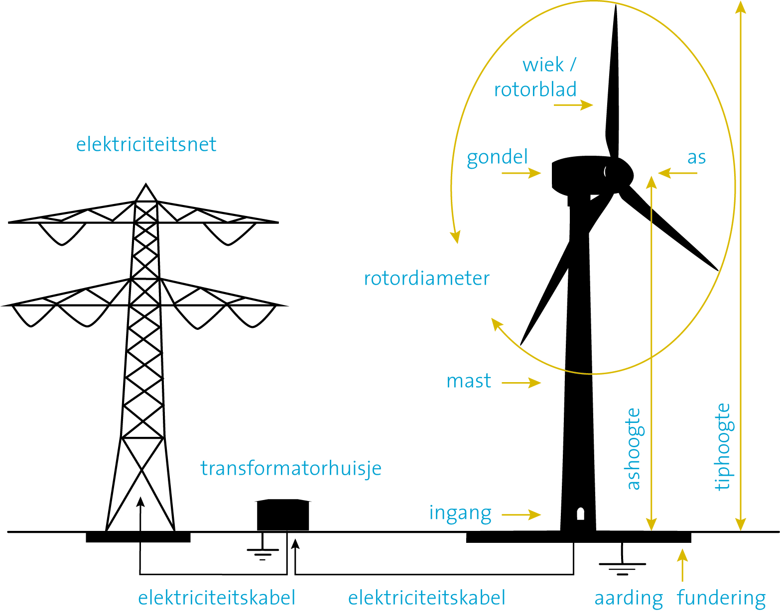 windturbine onderdelen